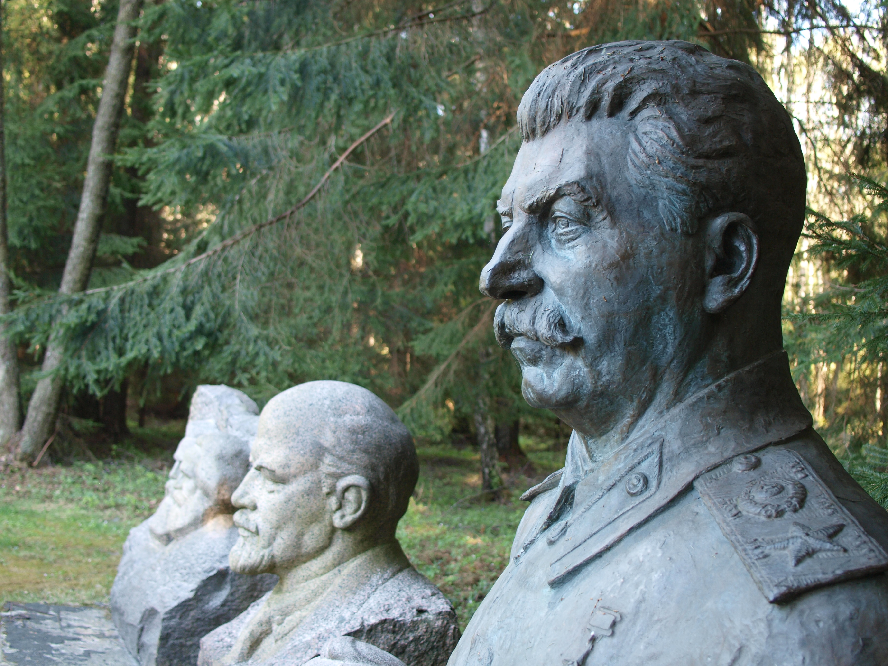 Busts of Stalin and Lenin, at Grūto parkas, Lithuania.